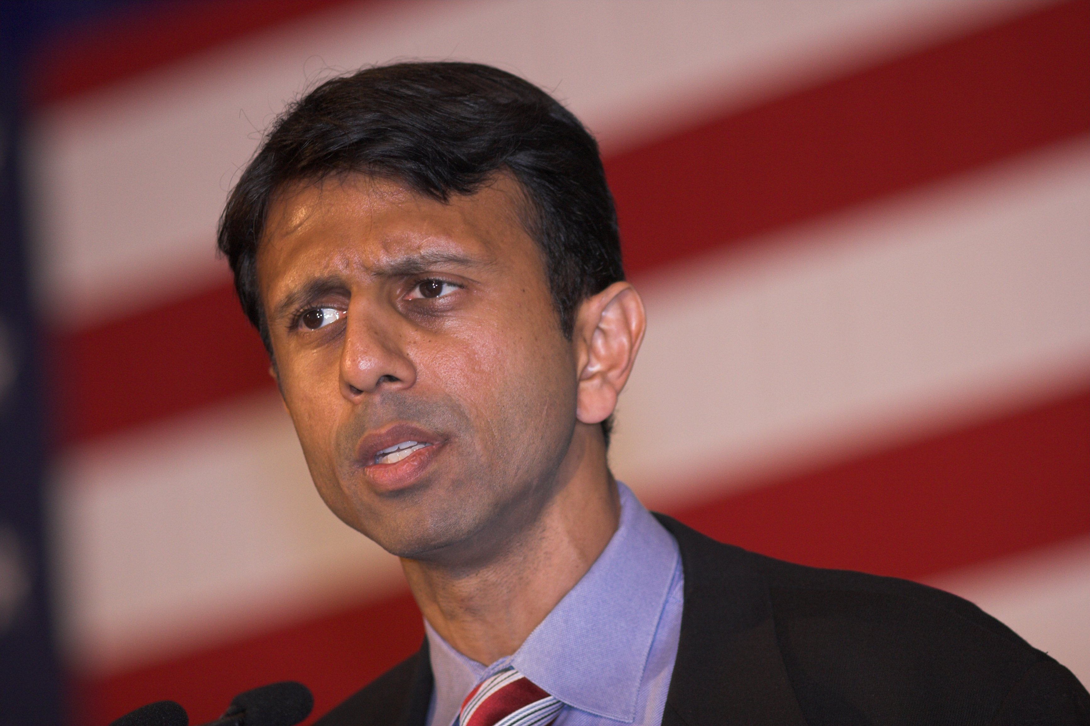 Louisiana Governor Bobby Jindal, at campaign event for presidential candidate John McCain in Kenner, Louisiana.